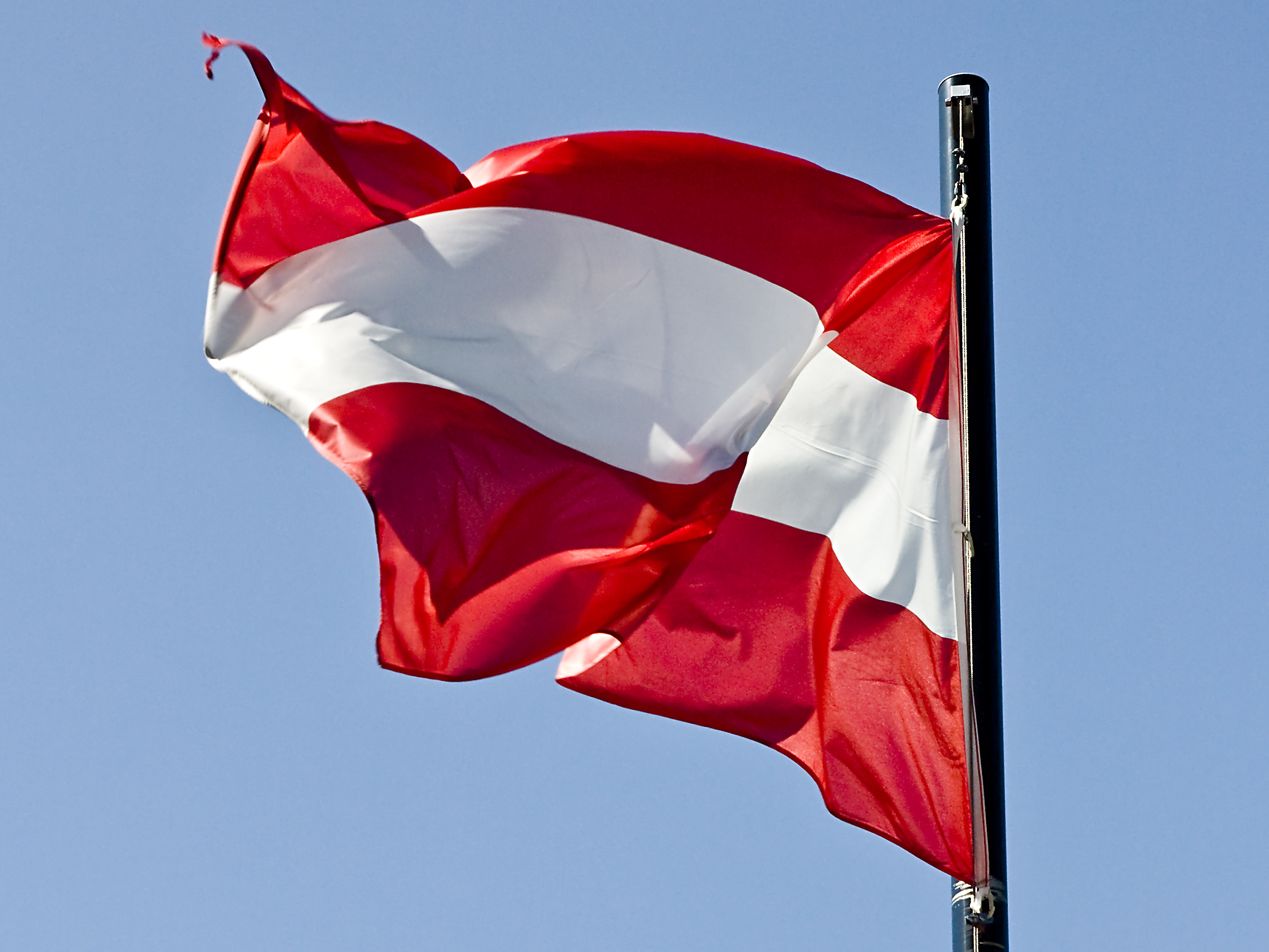 Civil flag of Austria